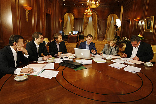 GORKI, MOSCOW REGION. Working meeting with Dmitry Medvedev on preparing the text of the Presidential Address to the Federal Assembly (from left to right): Presidential Aide Arkady Dvorkovich, First Deputy Chief of Staff of the Presidential Executive Office Vladislav Surkov, Chief of Staff of the Presidential Executive Office Sergei Naryshkin, Presidential Aides Dzhakhan Pollyeva and Sergei Prikhodko.